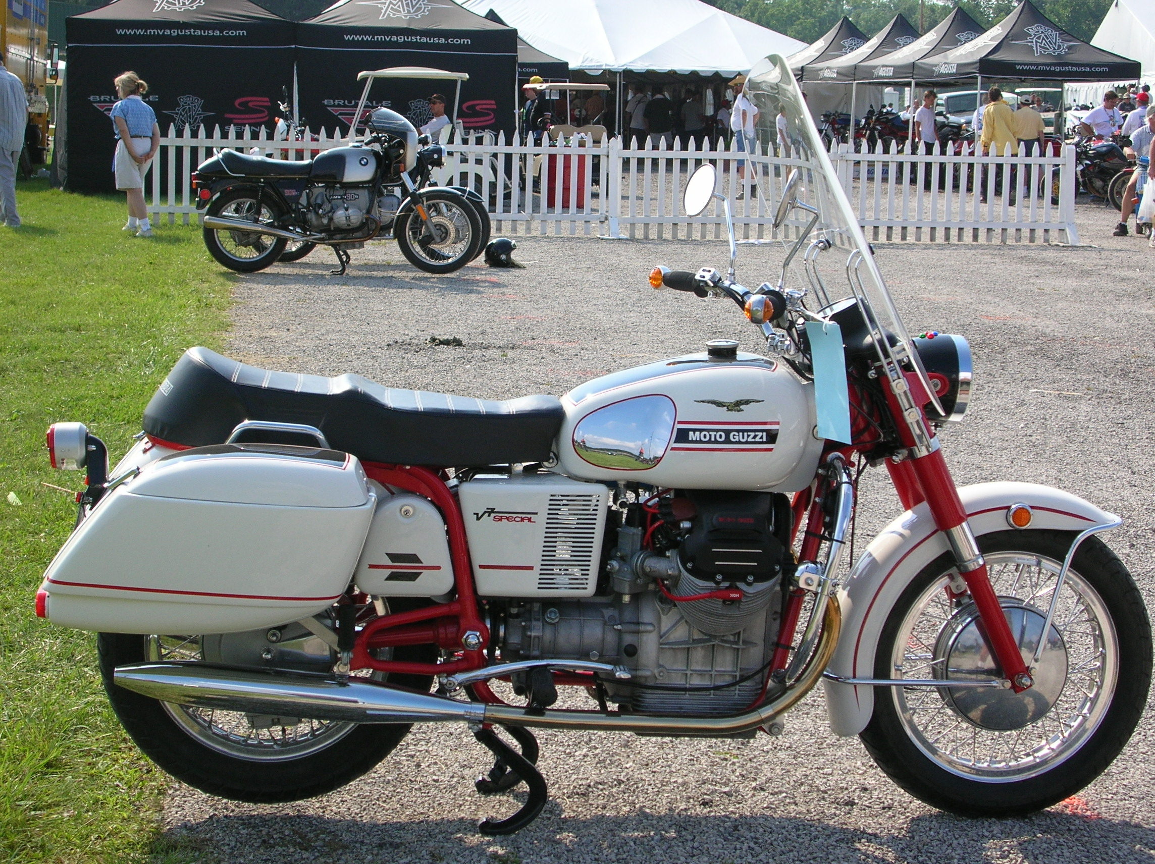 A 1972 Moto Guzzi 750 Ambassador owned by Charles Mullendore